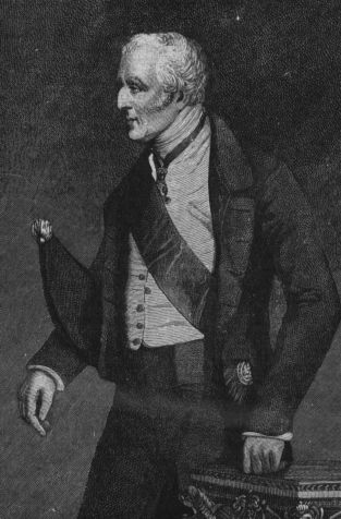 Depicted person: Arthur Wellesley, 1st Duke of Wellington – British soldier and statesman